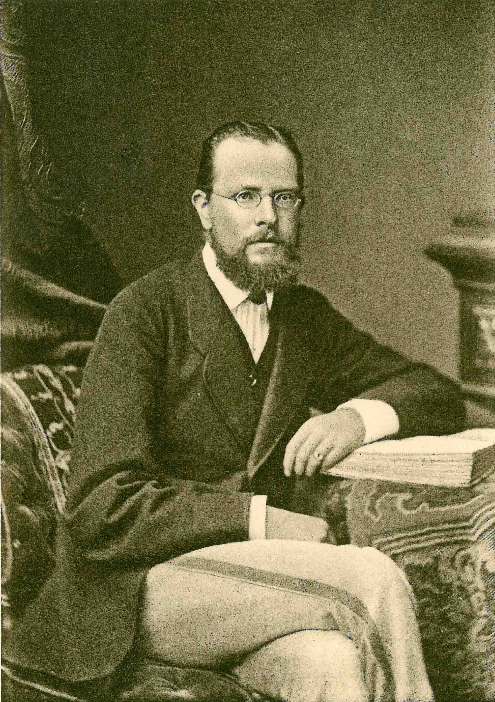 Hermann von Barth (1845-1876)